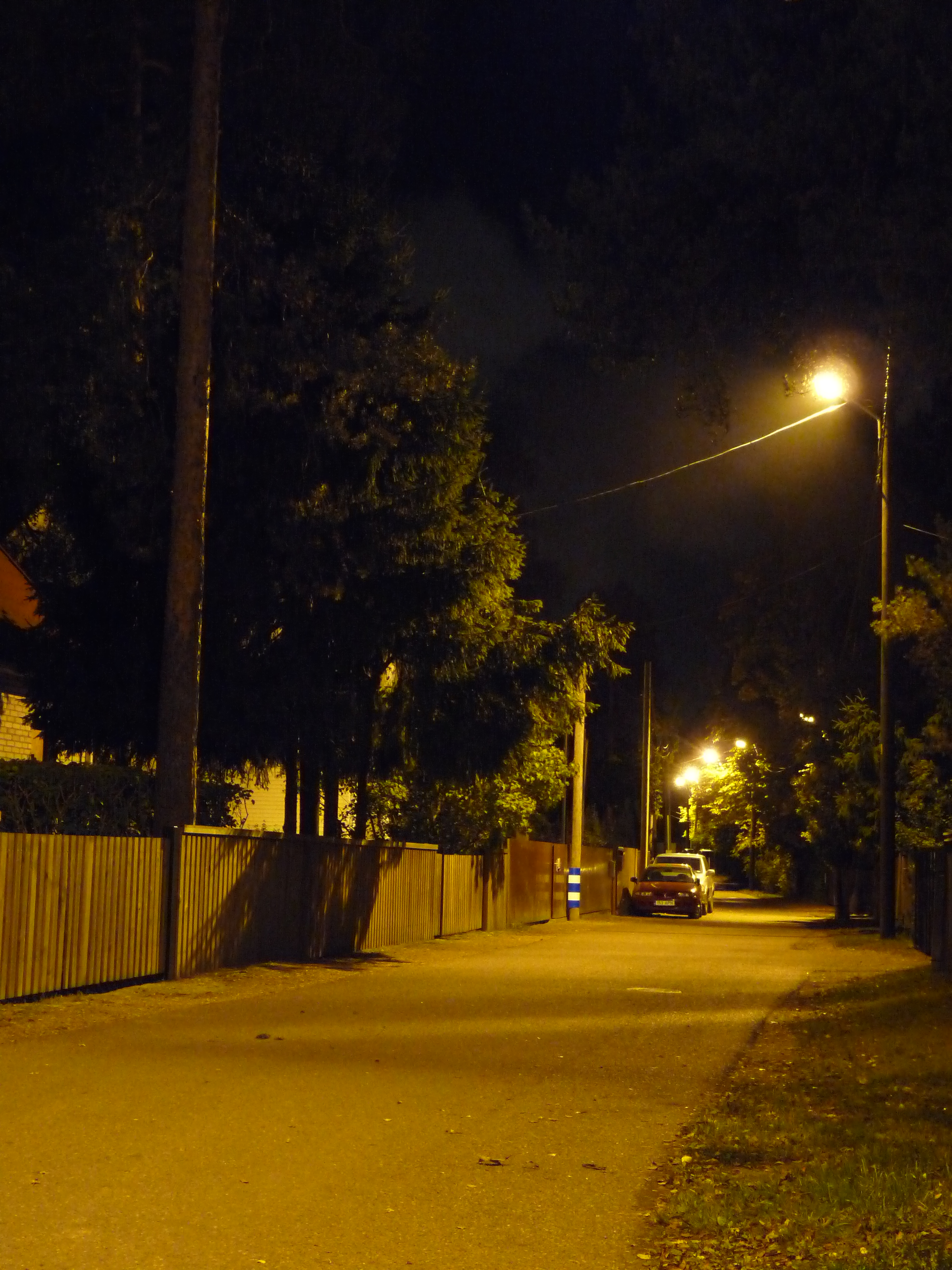 Puusepa street in Tallinn, Estonia